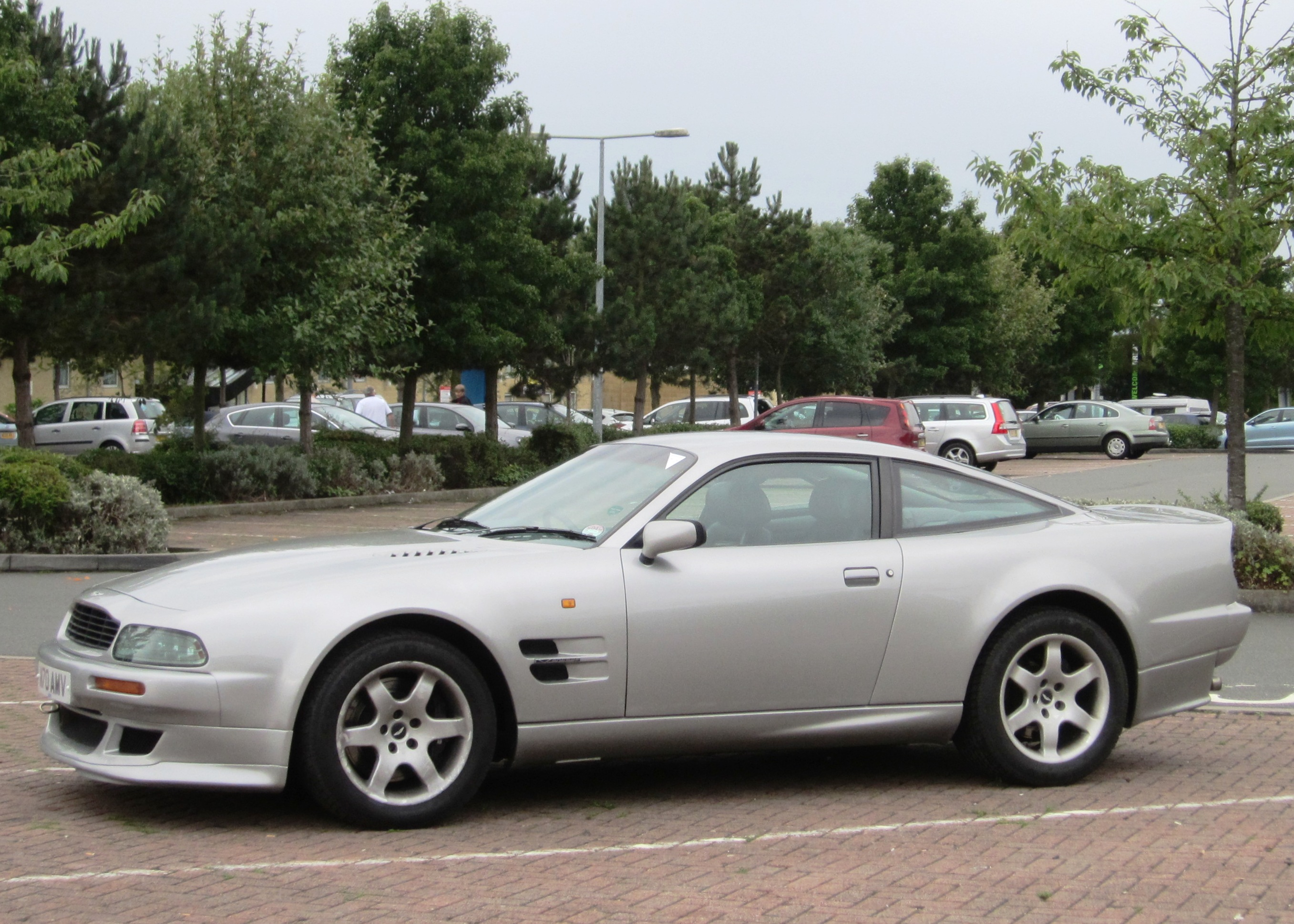 Aston Martin Vantage (1995)